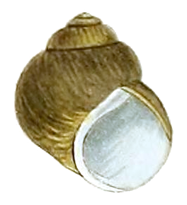 Drawing of apertural view of the shell of Lithoglyphus naticoides